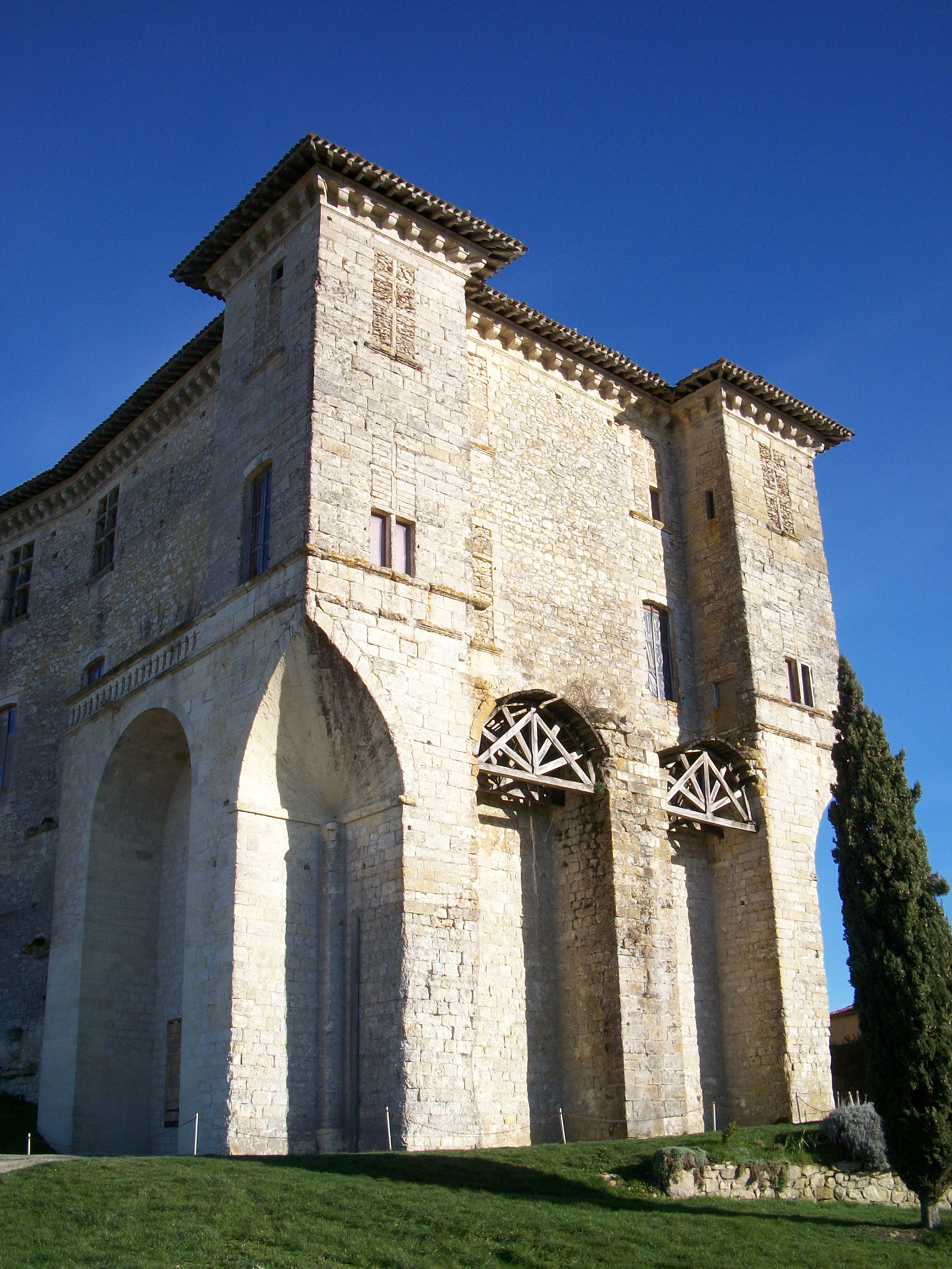 Lavardens Castle, Gers, France